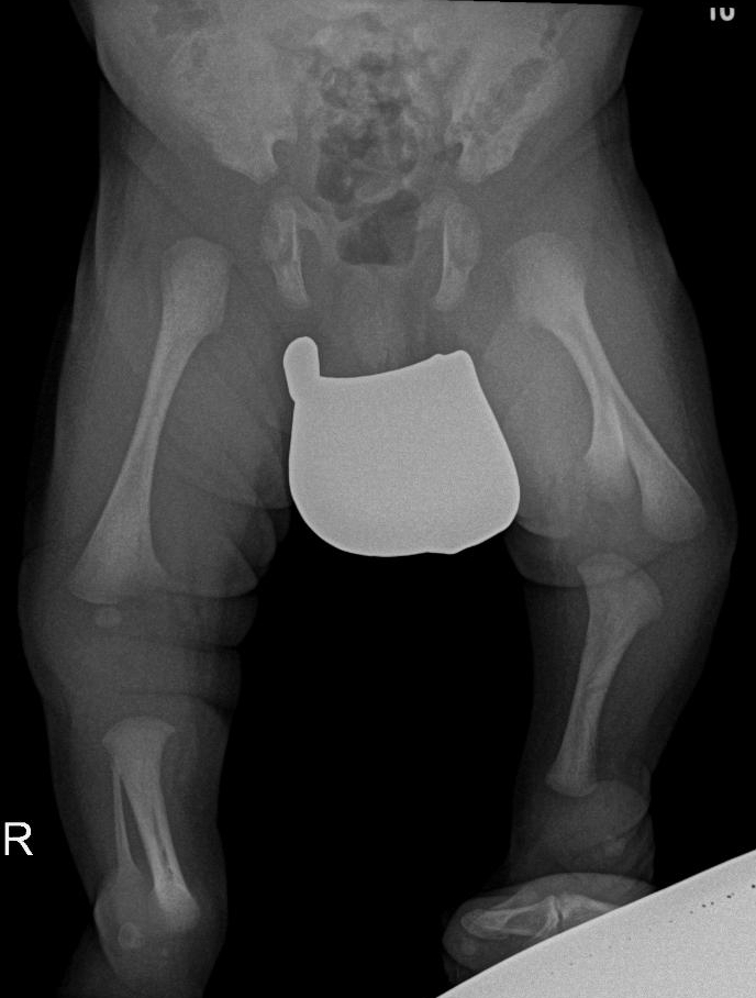 X-ray of 2 Weeks old neonate with Gollop-Wolfgang-Syndrome (left femoral bone)